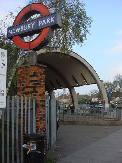 London Underground roundel at Newbury Park With part of the barrel-vaulted bus station Designed by Oliver Hill in the background